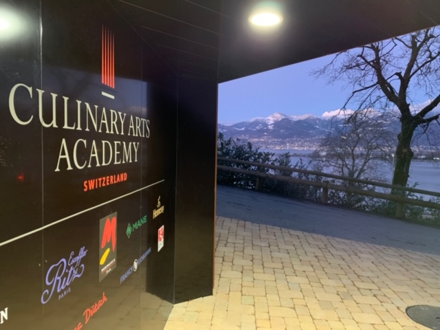 The new Apicius Building at the Culinary Arts Academy, Switzerland